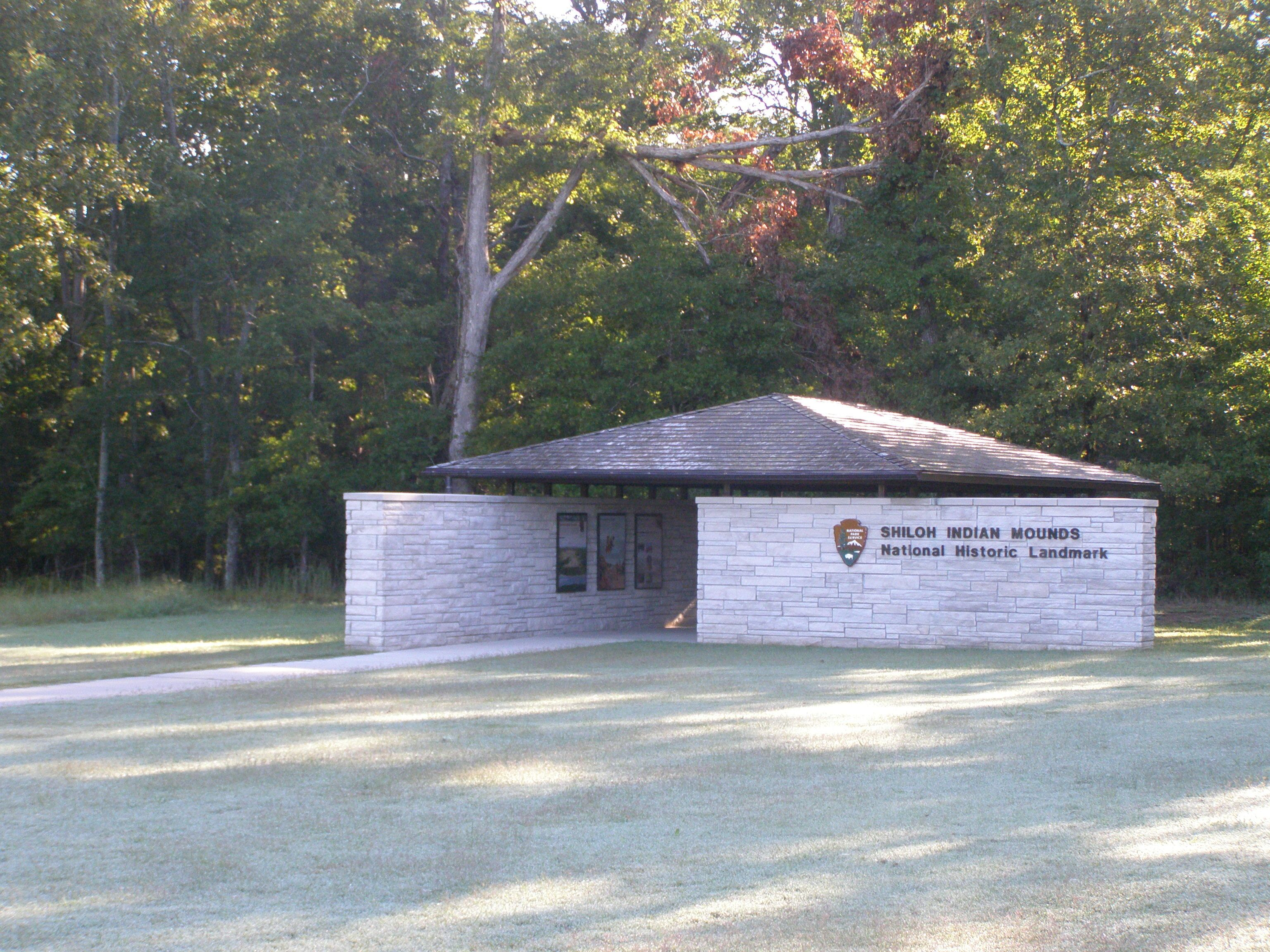 Shilo Indiana Mounds Archaeology Site information center at the Shilo Indian Mounds site in Shilo NMP, Tennessee.